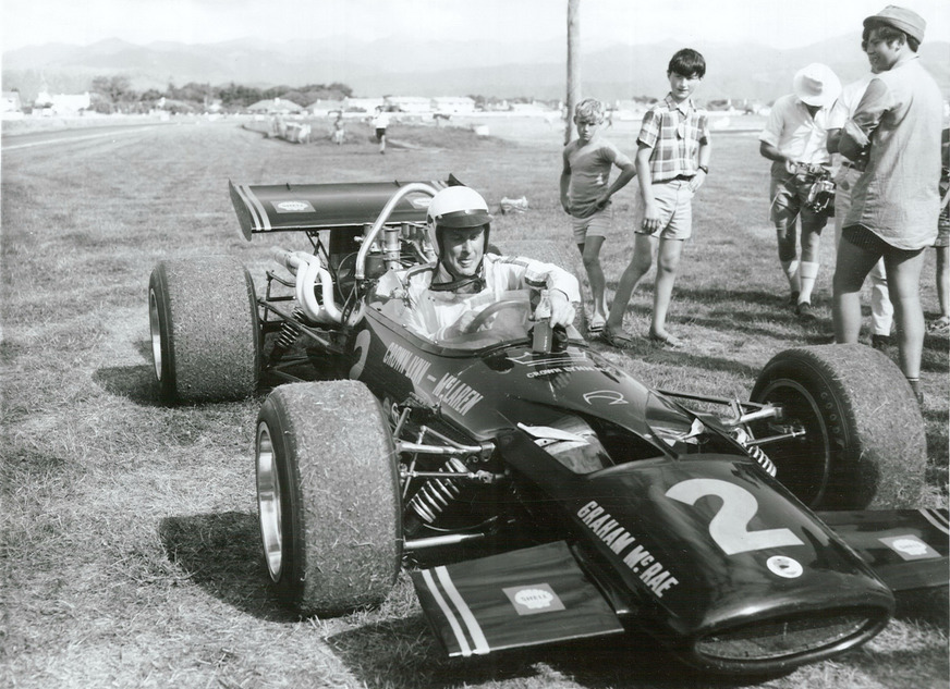 Title: Sports - Motor Racing Publicity Caption: International Motor Races, Levin Graham McRae reaches for a drink after winning the New Zealand Gold Star Championship Race. Photographer: R. Coad (R24767758)